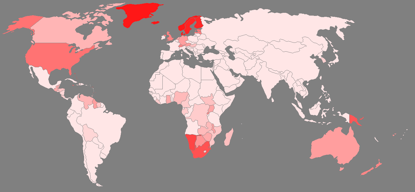 Prevalence of protestantism by country. Countries with 16% or more protestants are marked. The scale is HSV (0/P/100) where P is the percentage of Protestants. E.g. Denmark (0/91/100) = RGB #ff1717, USA (0/55/100) = RGB #ff7373. Data is based on the US State Department's International Religious Freedom Report 2004, , and the CIA Factbook, via this image, which only lists the 60 countries with the highest percentage of protestants. Rank 60 is Haiti with 16%. All other countries (with a fraction lower than that of Haiti) are shown with a generic "background" colour fo HSV (0/10/100) = #ffe6e6. These countries could be given better resolution in future updates of the map. 90% 80% 70% 60% 50% 40% 30% 20% 15% or less